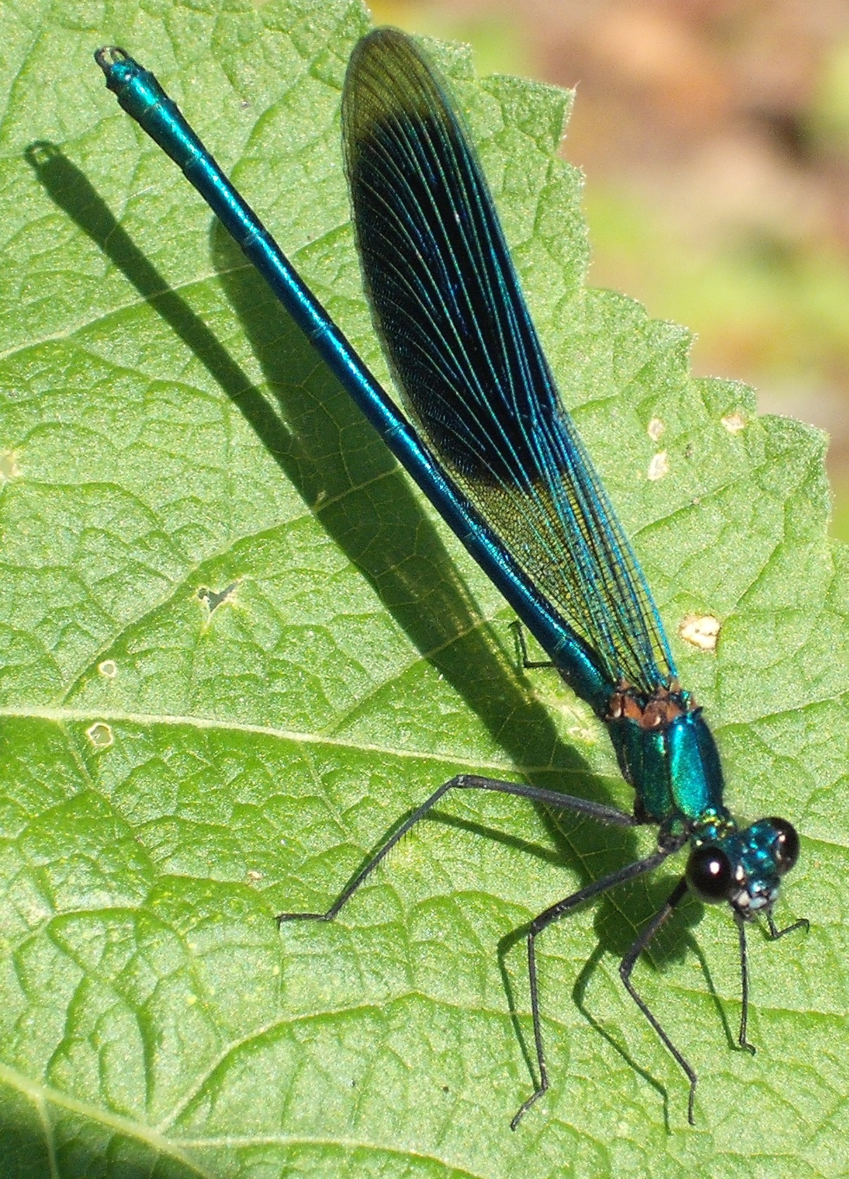 Male Calopteryx splendens: Picture taken 7.7.2014. Own work.